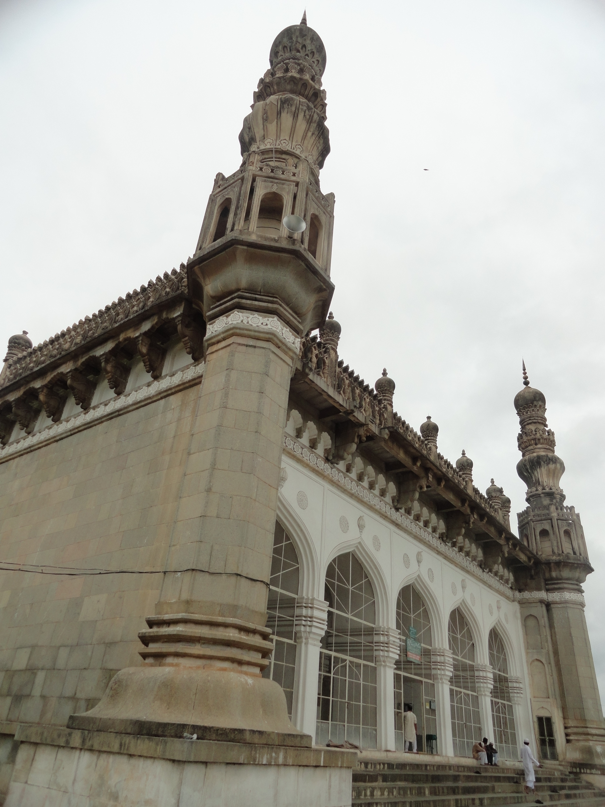 side view of the hayatbakshi begum mosque at hayat nagar, in hyderabad.